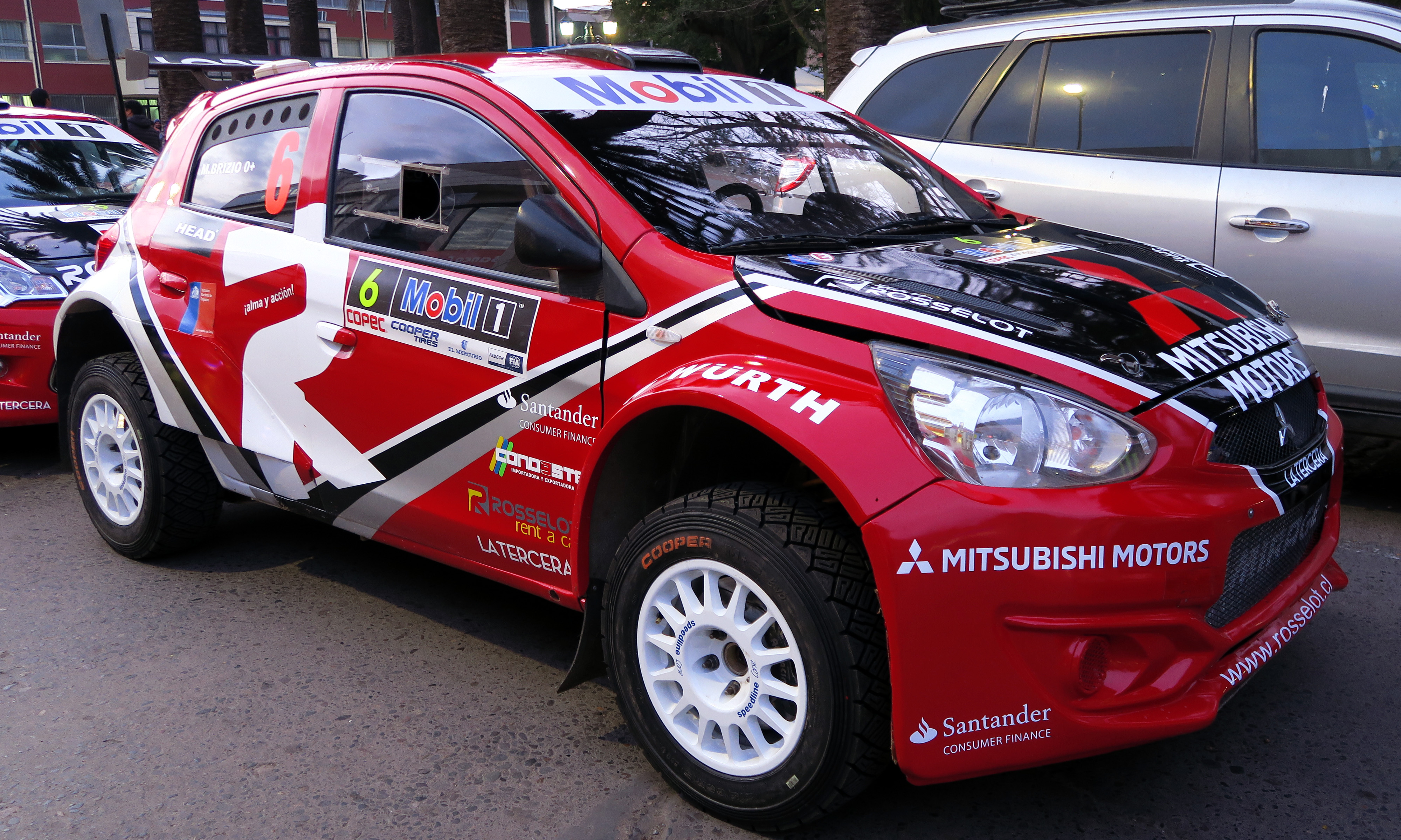 Rallymobil 2018, Mitsubishi Mirage R5